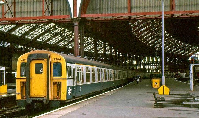 Brighton station Under the impressive overall roof, an eight-car 4BIG set awaits departure with the 14.53 to Victoria.